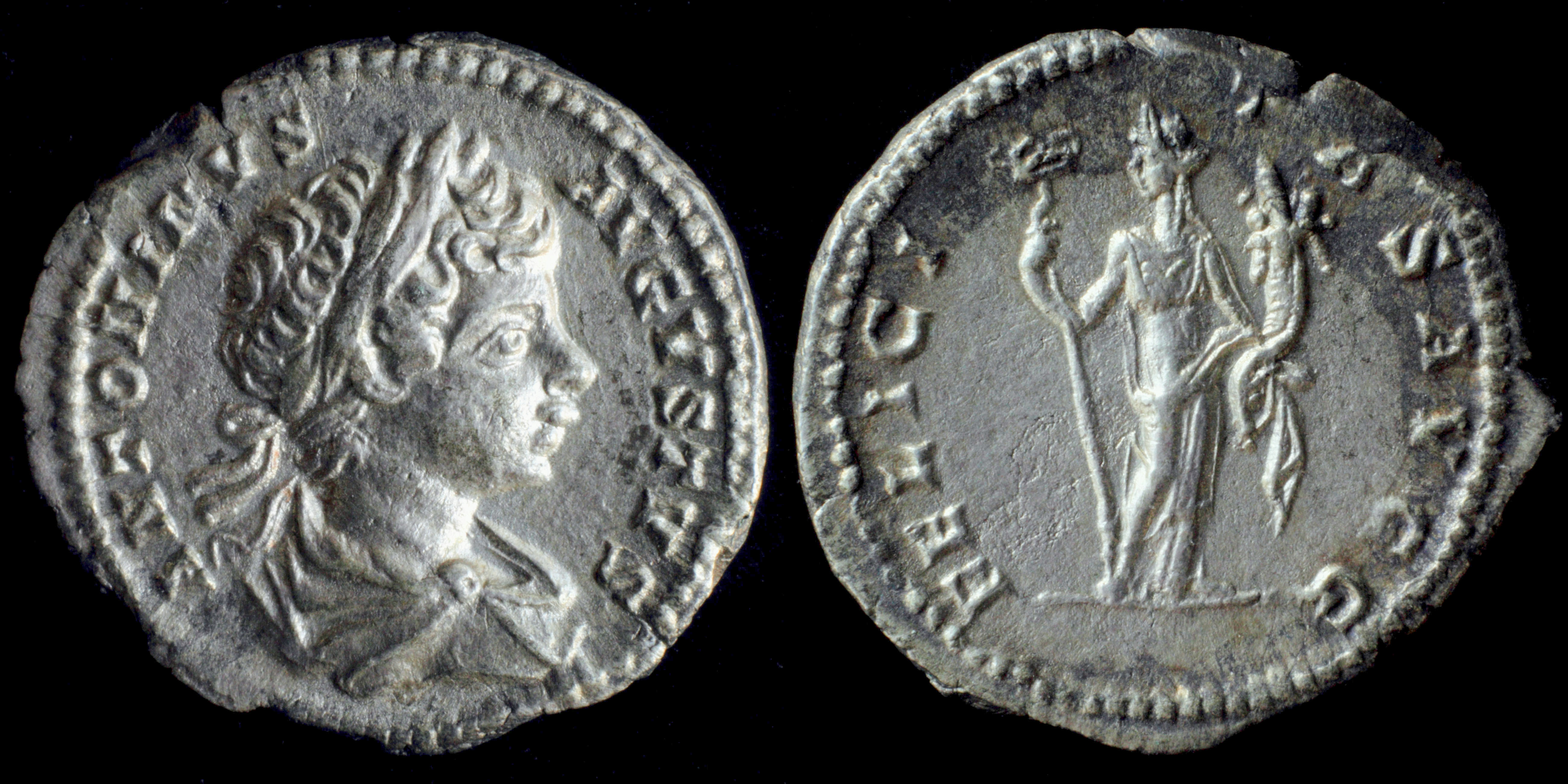 AR denarius of Caracalla, struck in Rome 199-200 AD. obverse: emperor's laureate draped bust right from behind ANTONINVS__AVGVSTVS reverse: Felicitas standing half right, head left, holding caduceus and cornucopia FELICI_TAS AVGG reference: RSC III 61a, RIC IV 35, BMCRE V 161 weight: 3,19g